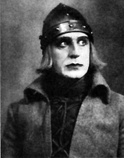 Einar Larsson in the opera Engelbrekt